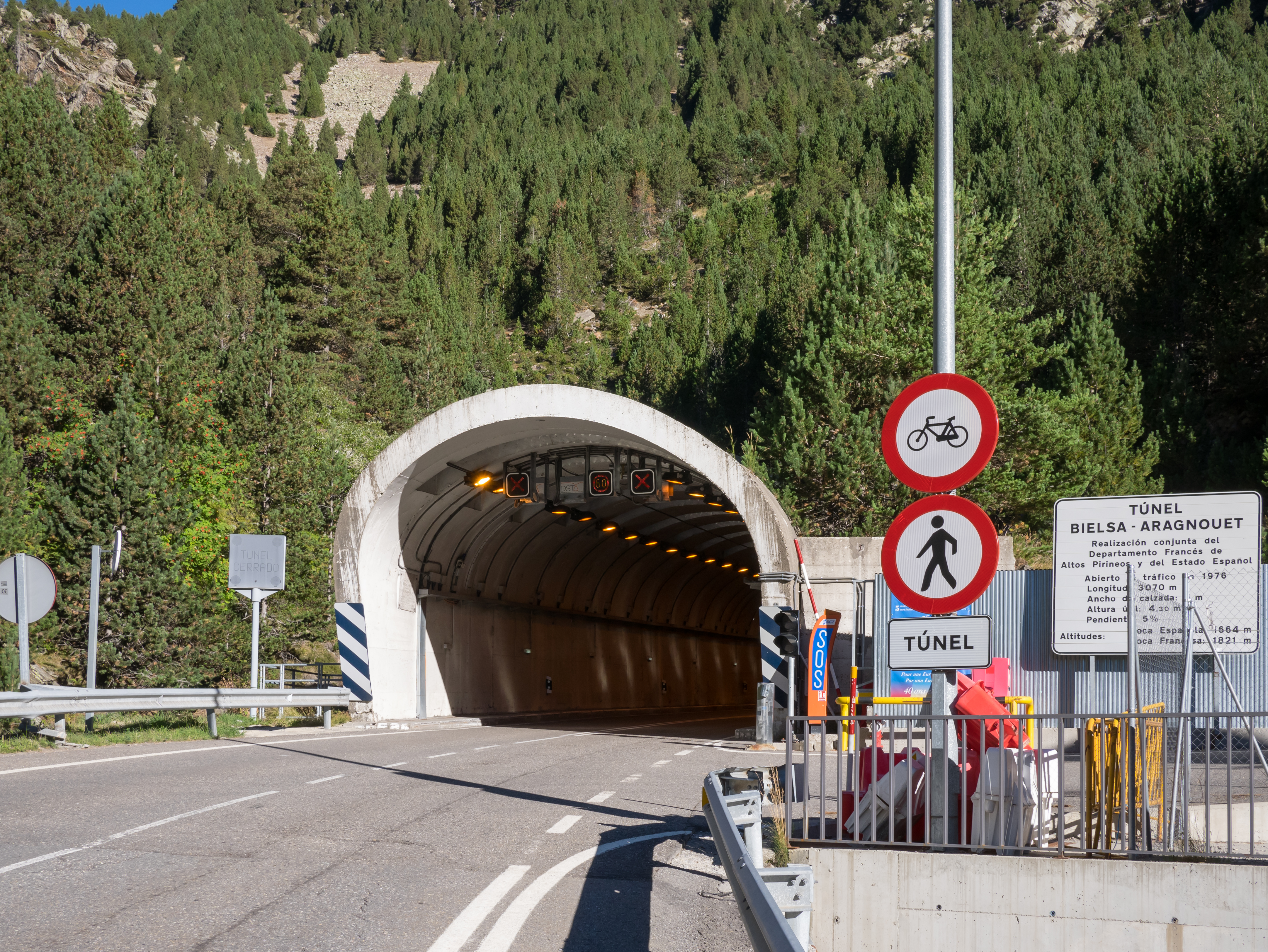 South end of the Bielsa-Aragnouet Tunnel. Sobrarbe, Aragon, Spain